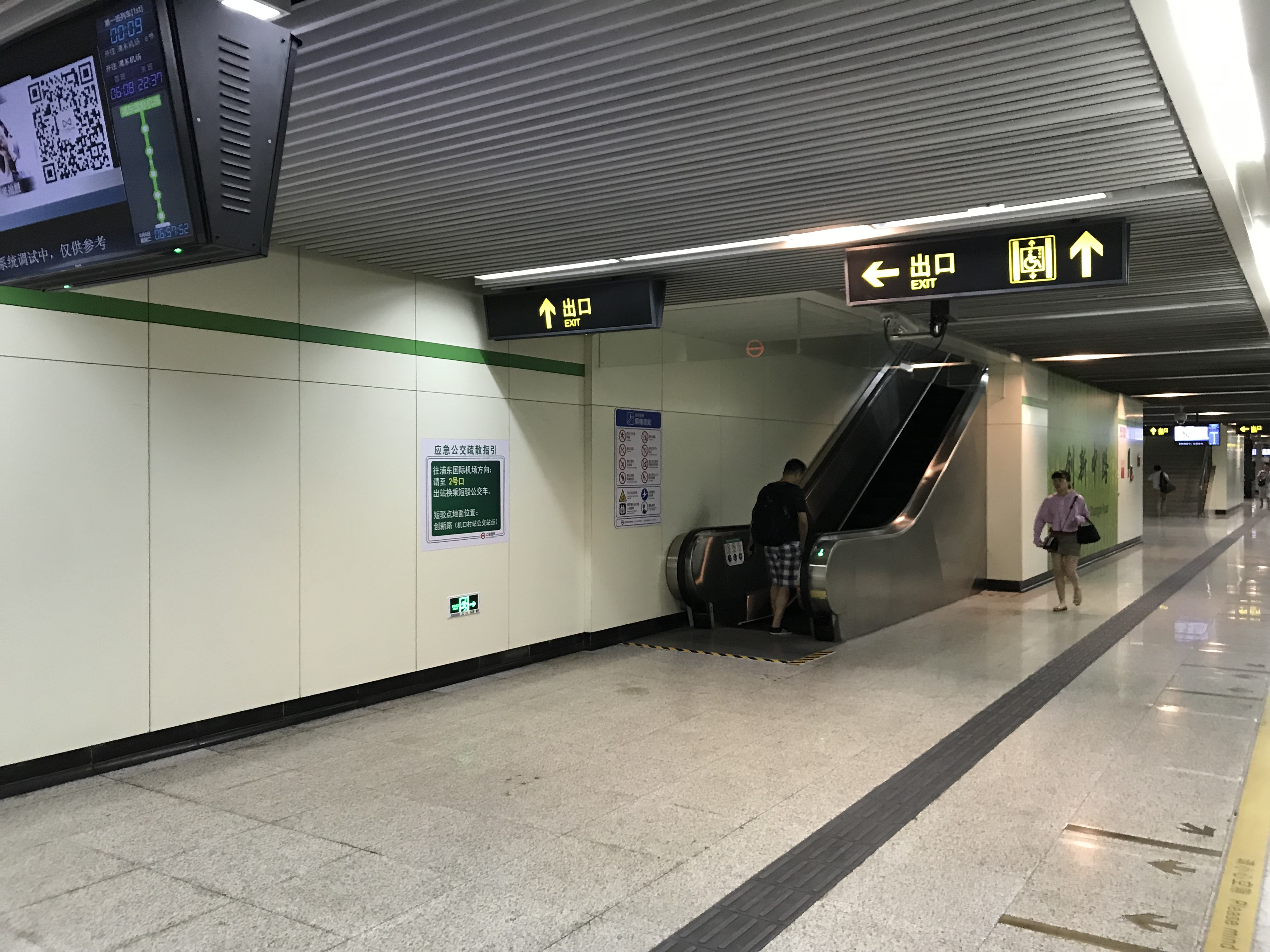 201908 Middle Chuangxin Road Platform